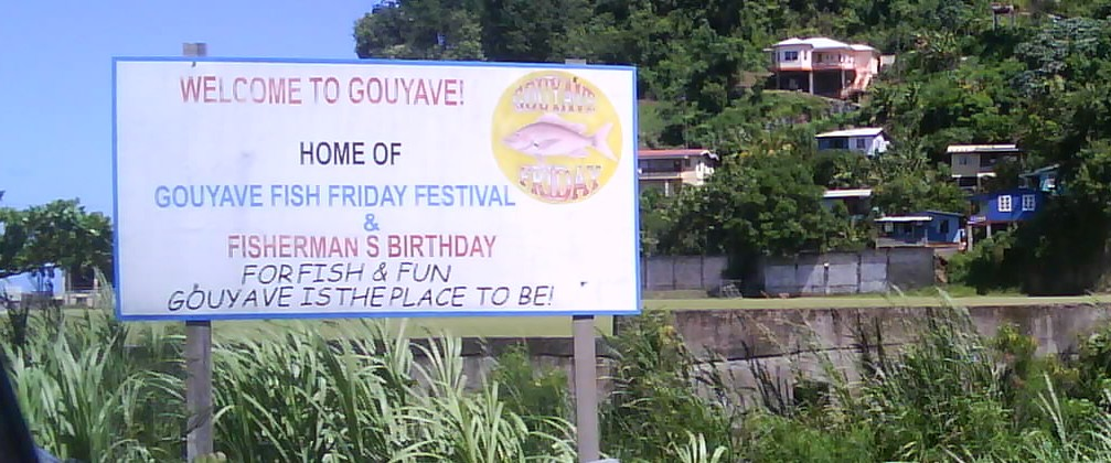 Gouyave